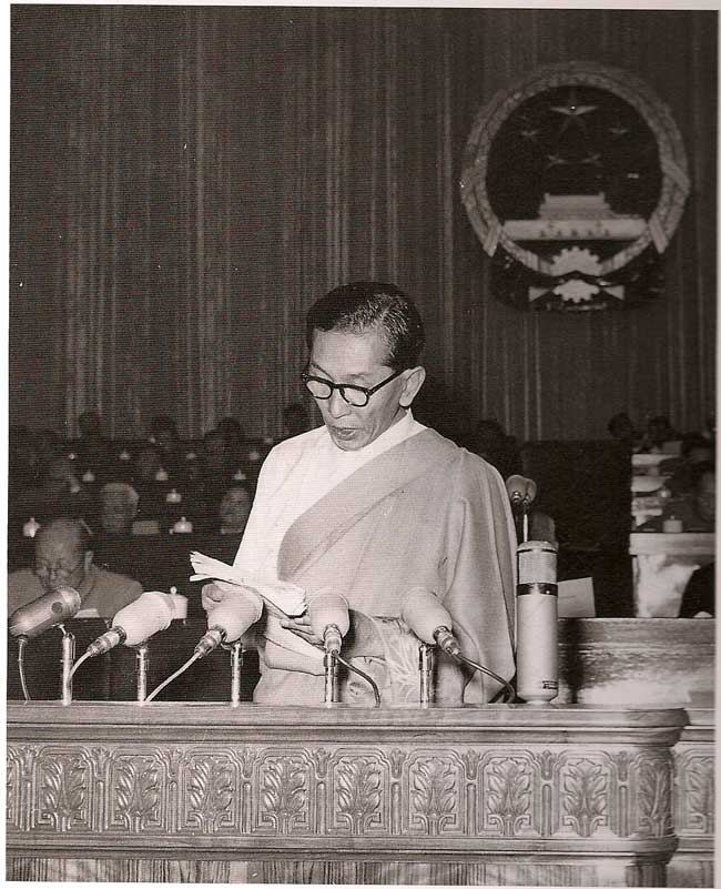 Ngabo making a speech in the Second National People's Congress in April 1959, barely a month after the Dalai Lama escaped into exile and hundreds of Tibetans were murdered in Lhasa by PLA troops in March.